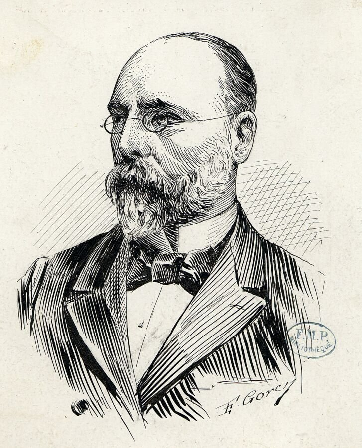 Charles Bouchard